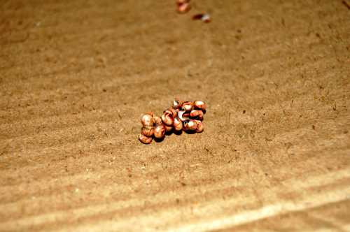 Atlas Moth Eggs